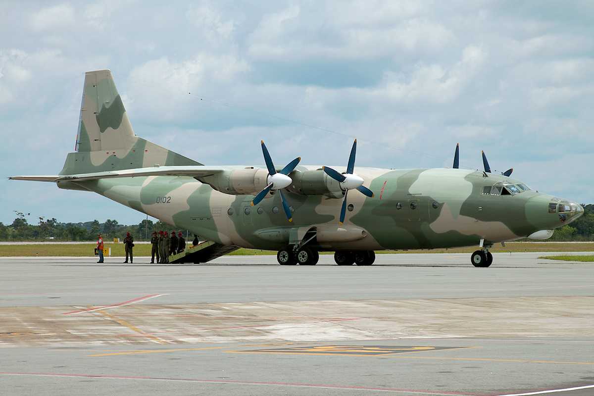 Venezuelan Air Force Shaanxi Y-8F-200W in Paramaribo